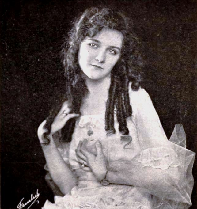 Still from the American drama film Danger Ahead (1921) with Mary Philbin, on page 75 of the August 20, 1921 Exhibitors Herald.